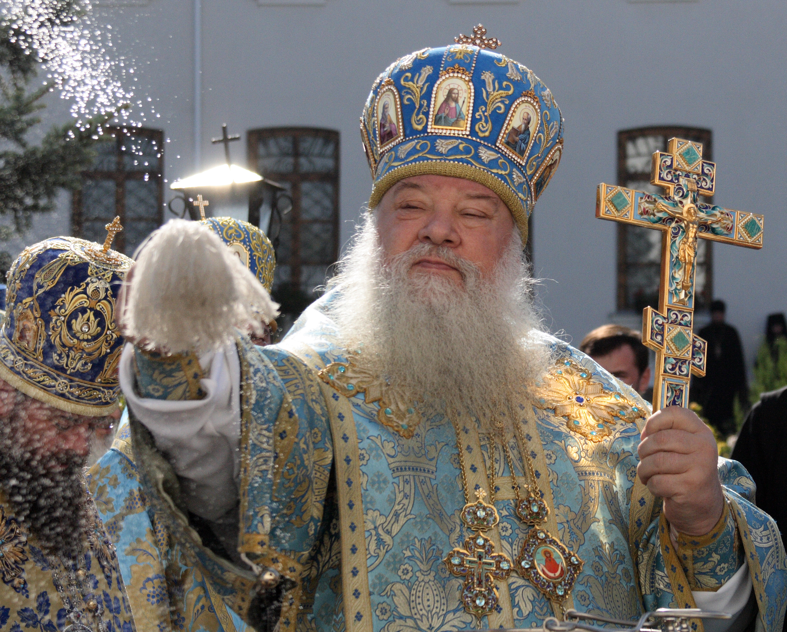 Metropolitan Nifont of Lutsk and Volhynia